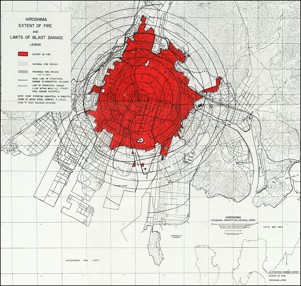 Hiroshima - Extend Of Fire & Limits Of Blast Damage